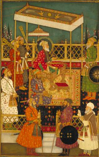 Emperor Awrangzib Receives Prince Mu'azzam. Commentary: This painting, from an album complied for Shuja al-Dawla, a nawab of Oudh, was produced at the end of the period of Mughal greatness: Mughal power and wealth and hence artistic patronage and production peaked during the reigns of Akbar (r.1556-1605), Jahangir (r.1605-27), Shah Jahan (r.1628-57), and Awrangzib (r.1658-1707). Then, in 1739, the Iranian ruler Nadir Shah sacked Delhi, carrying back to Iran the riches of the Mughals – their library, treasury and even the fabled Peacock Throne. More than anything, this was a devastating psychological blow from which the Mughals never recovered.